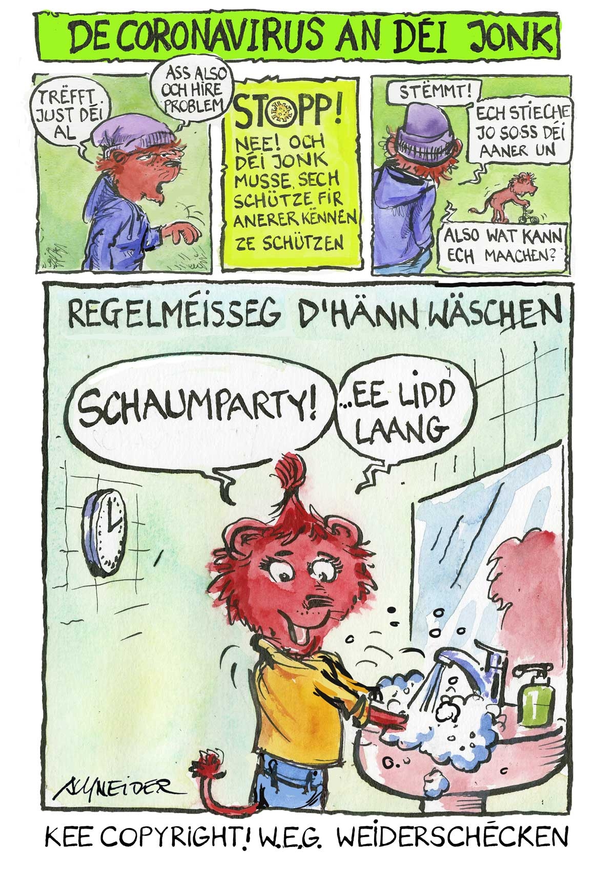 Comic telling the youth in Luxembourgish how to prevent the COVID-19 from spreading by washing their hands on a regular basis. The text in Luxembourgish underneath the comic strips states that it has no Copyright and asks the reader to share it.